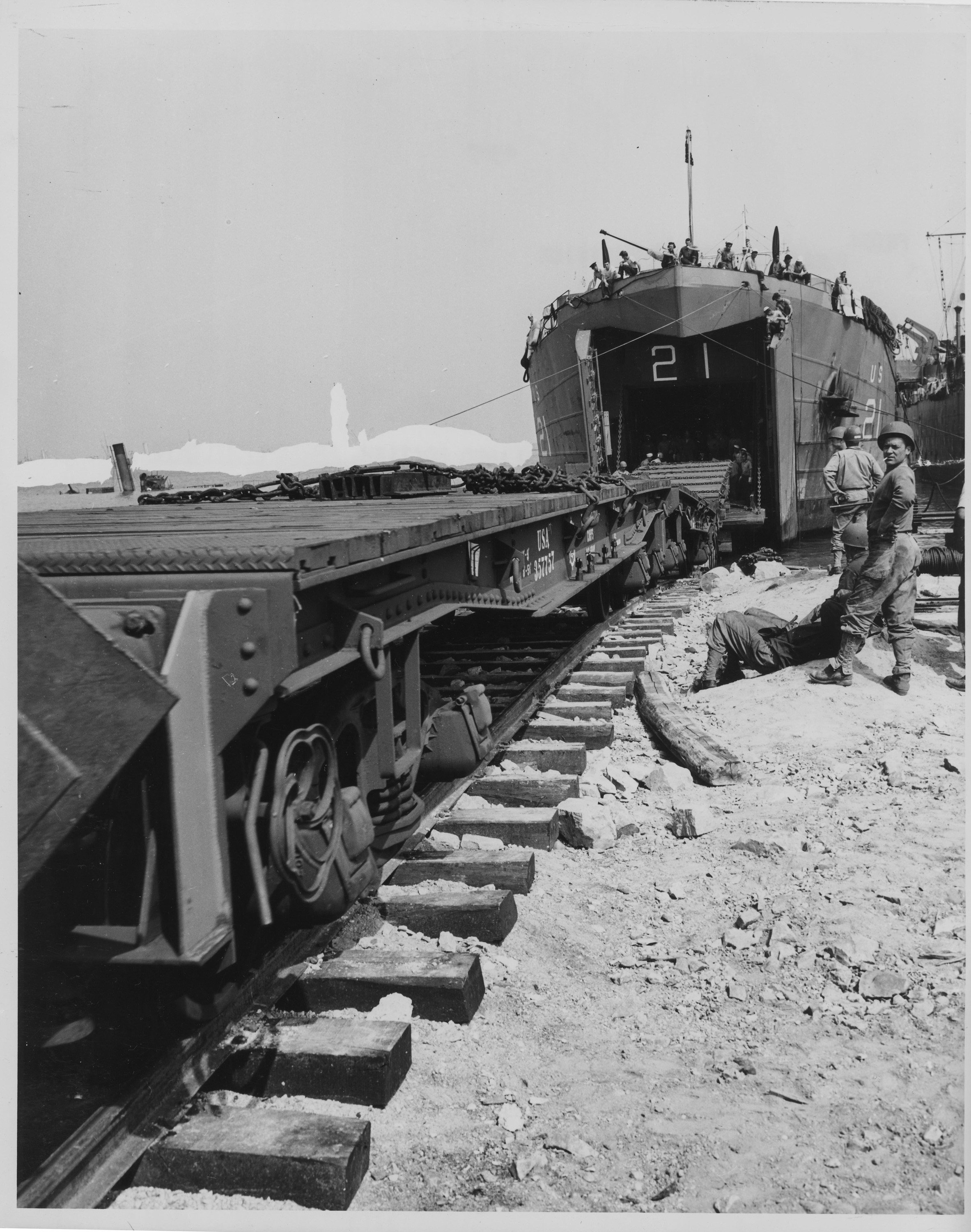 USS LST-21 unloading railroad cars at Normandy in June 1944